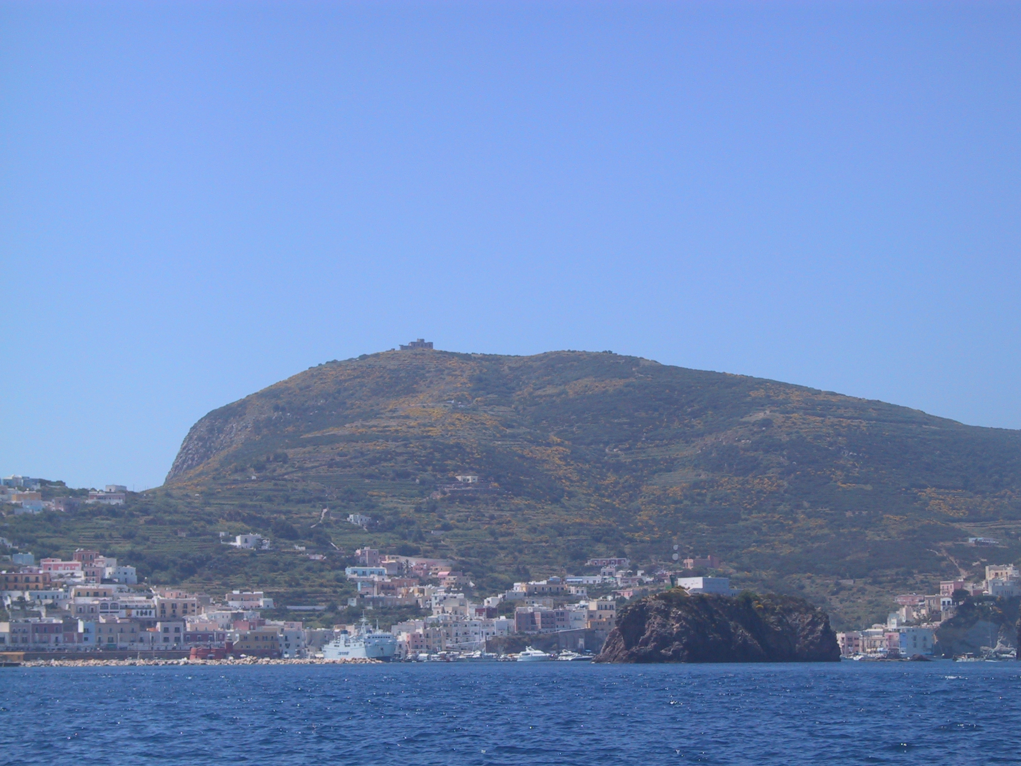 Cala fonte in Ponza.